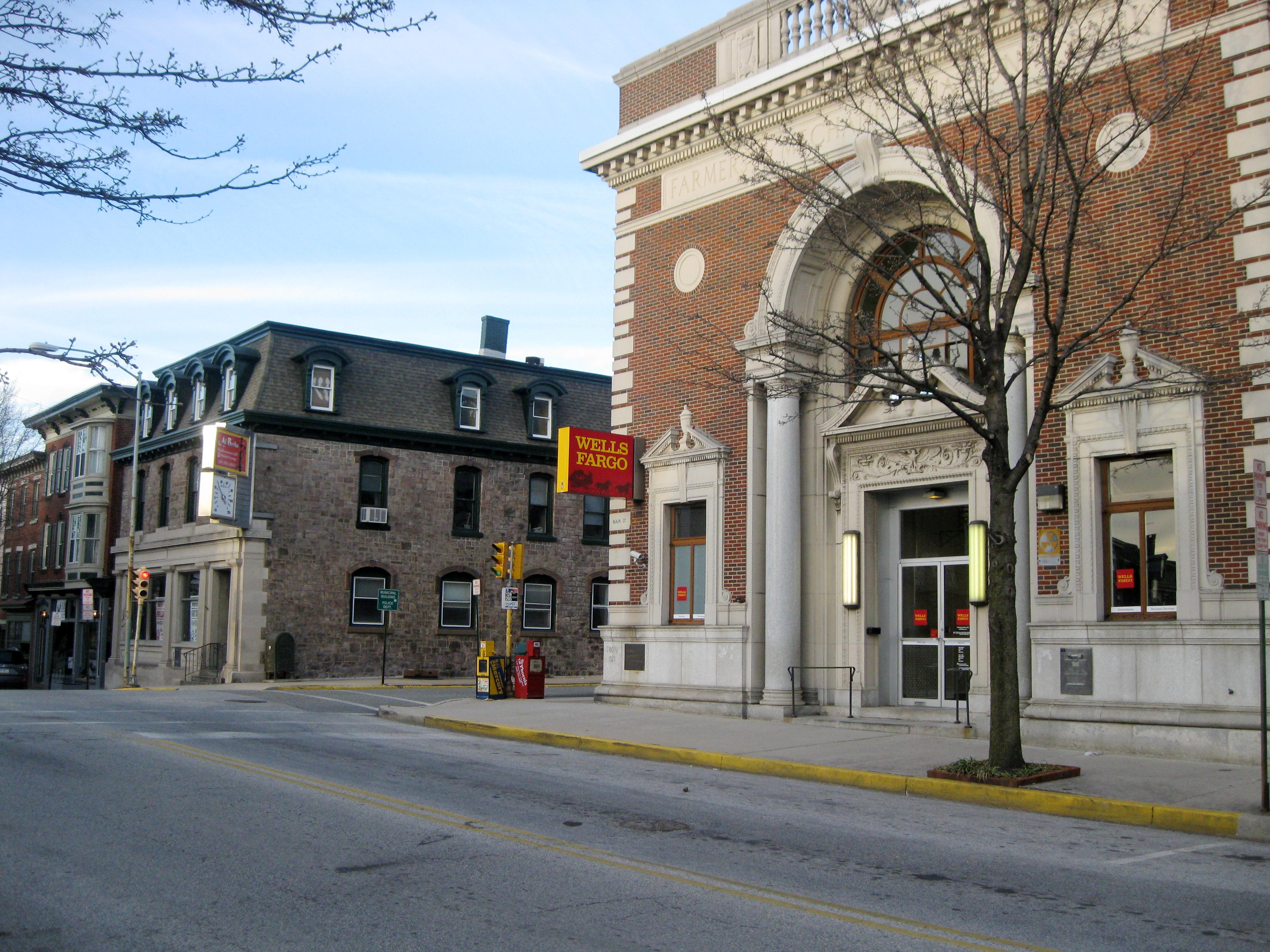 The corner of Church and Main, showing the former building of the National Bank in Phoenixville, which is now a local bank.